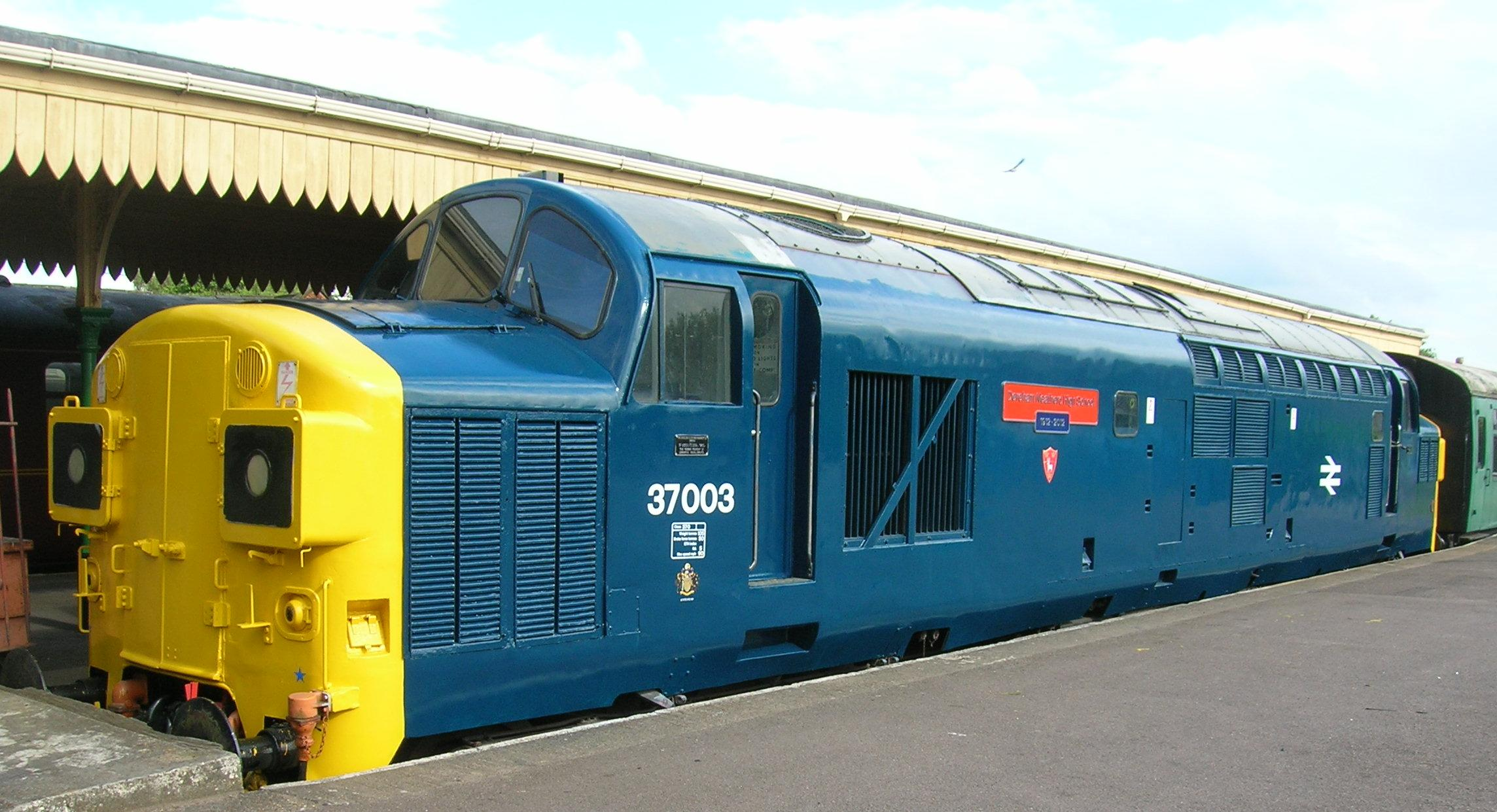 Class 37003 after repainting and naming in July 2012